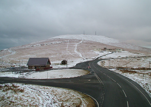 Snaefell from The Bungalow - Isle of Man. Snaefell living up to its name of 'Snow Mountain'. Quite unusually the Mountain Road was open in snow conditions allowing this picture, which was taken from the footbridge over the road - necessary when the road is closed for motorcycle racing.